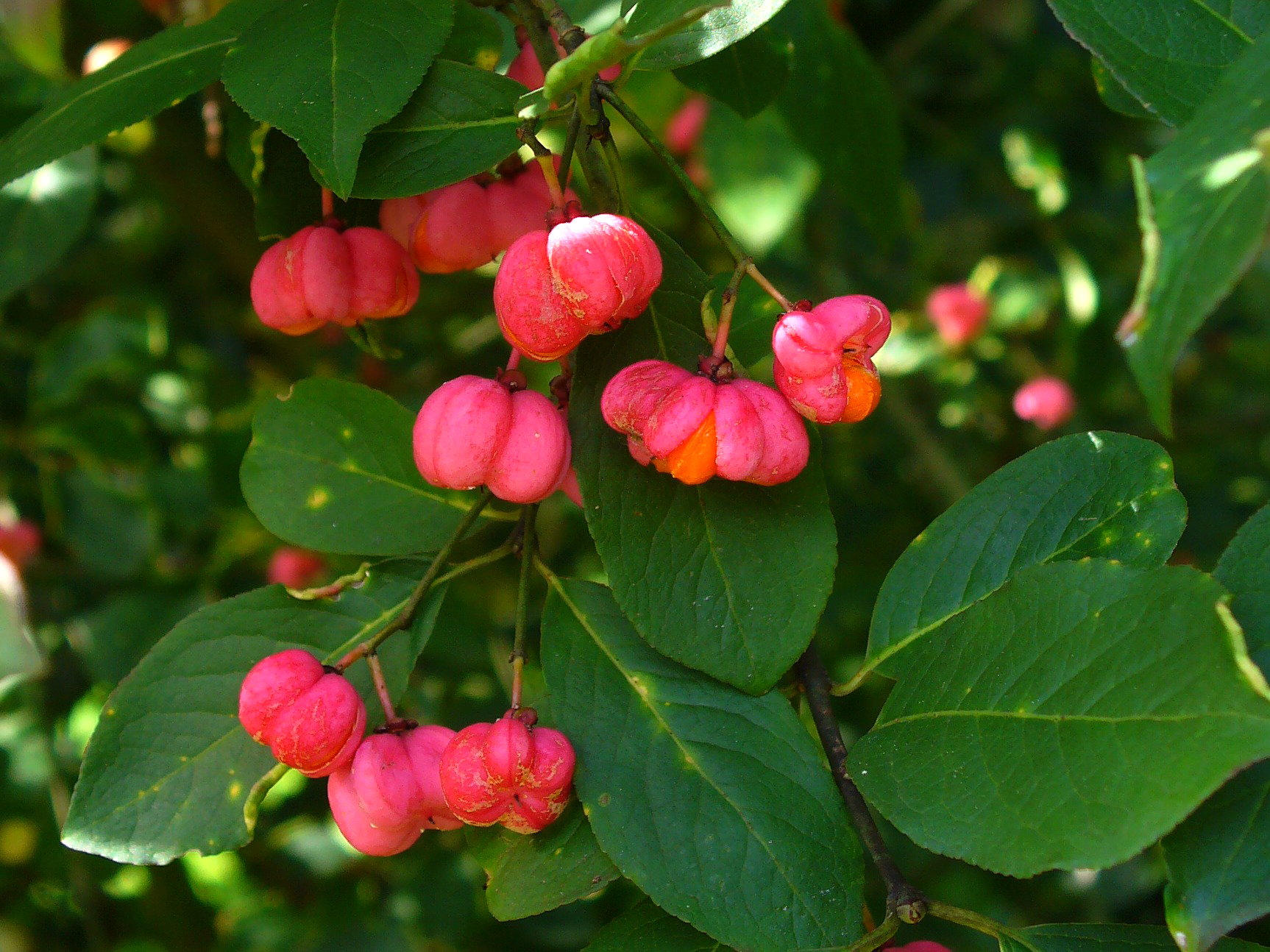 Euonymus europaeus, Celastraceae, European Spindle, Common Spindle, fruits; Karlsruhe, Germany.